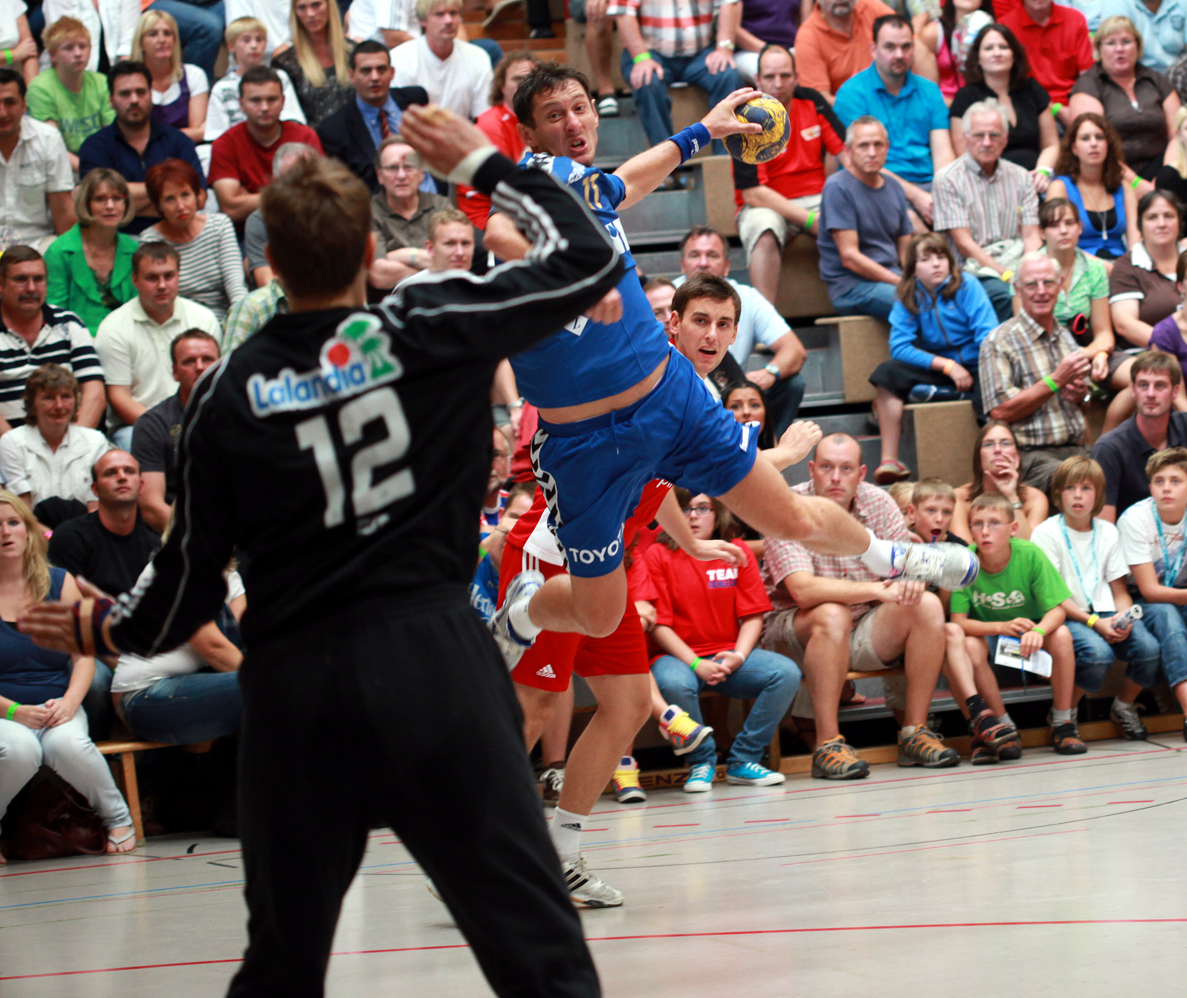 Mirza Džomba, handball player from Croatia, playing for RK Zagreb, on August 22nd, 2009 in Ehingen (Germany), during the Schlecker Cup 2009.